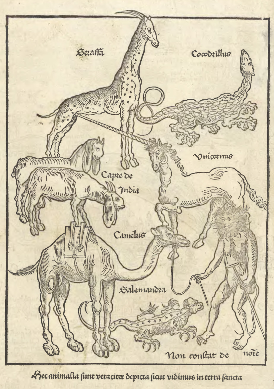 Erhard Reuwich, The Animals in the Holy Land. From Bernhard von Breydenbach, Peregrinatio in Terram Sanctam (The Travel to the Holy Land), Mainz, 1486. The wonders of the Holy Land from the 1486 Mainz edition of Breidenbach: These animals were faithfully painted just as we saw them in the Holy Land. From top to bottom: Giraffe, Crocodile, Indian goat, Unicorn, Camel, Salamander, The name of this one is not known.